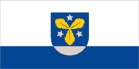 flag of the city of Aizkraukle, Letònia